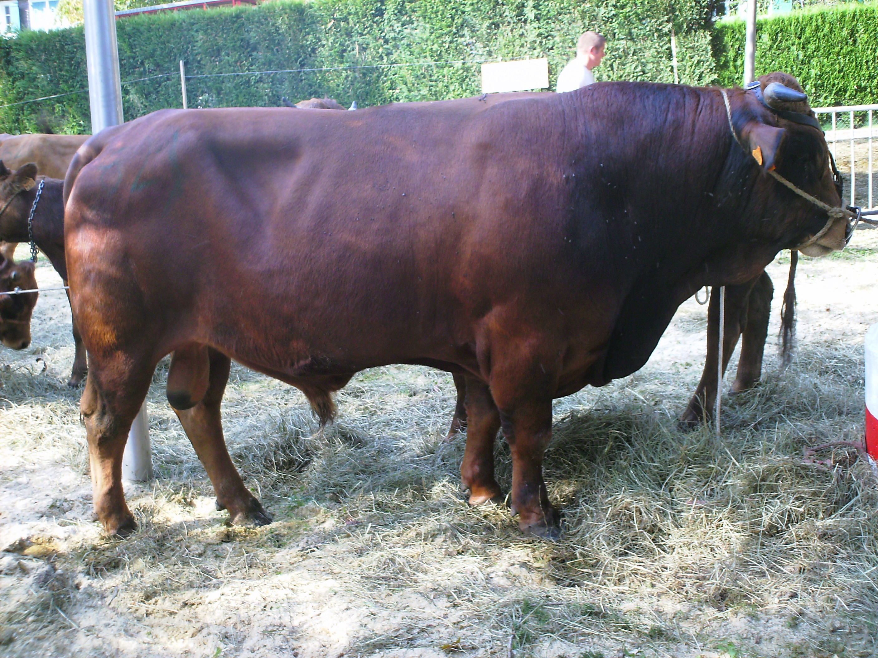 A Bull, "Tarine" race